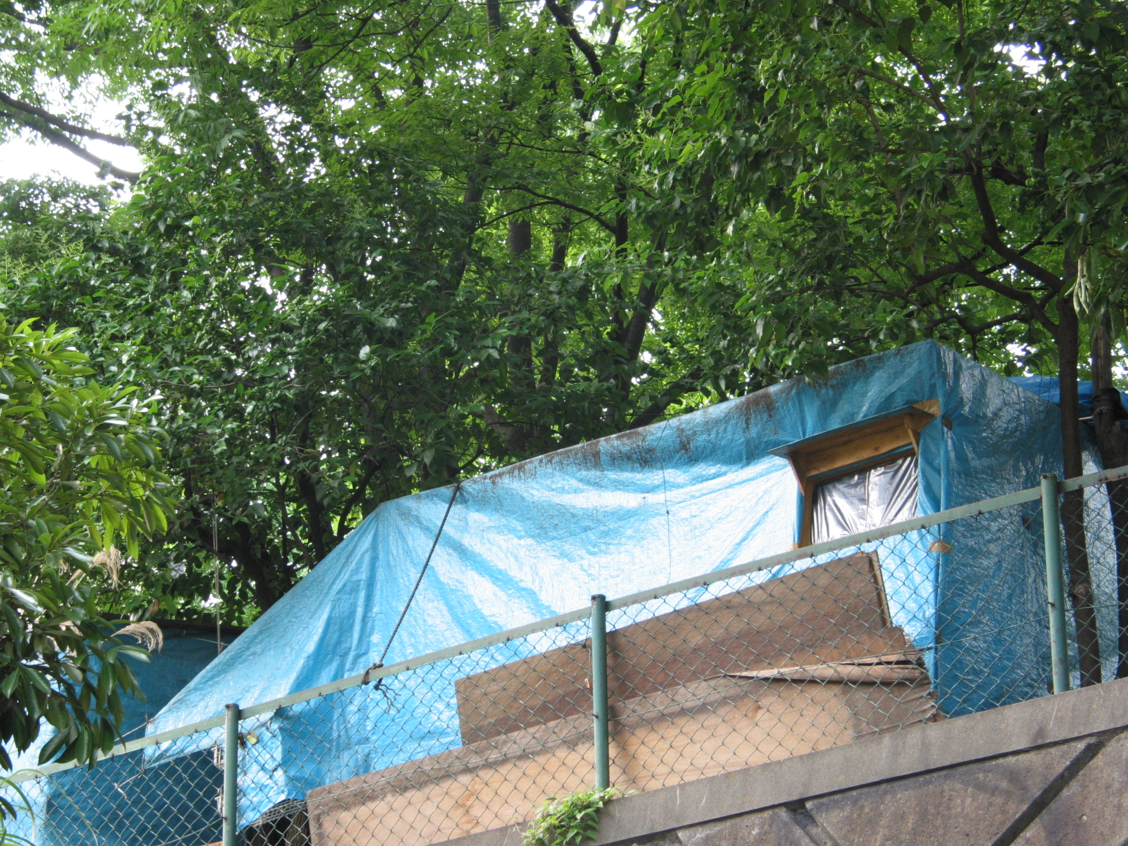 Homeless shelter under the trees in Shibuya Tokyo using a Tarpaulin cloth for walls with a window.